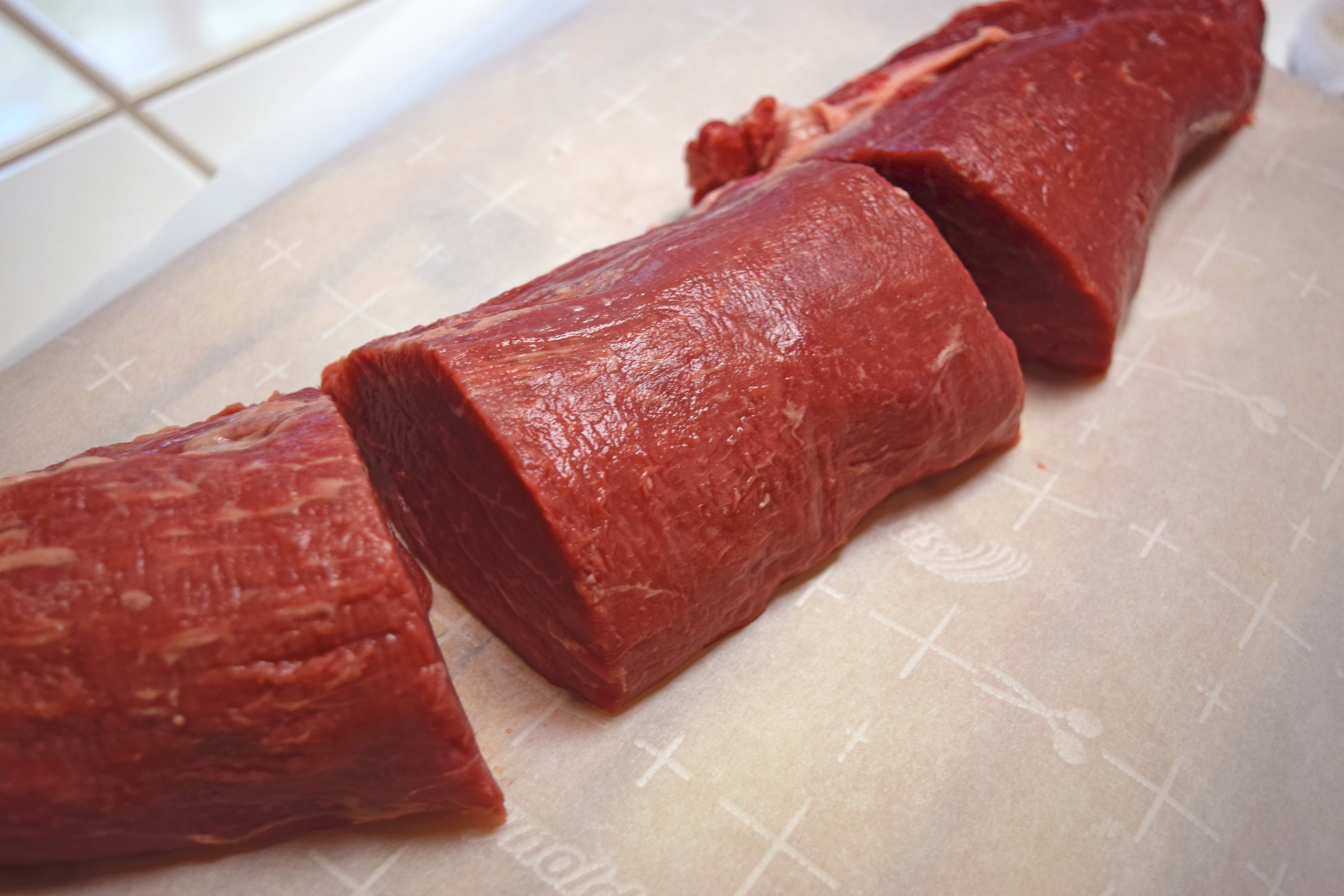 The Chateaubriand cut of beef tenderloin is often confused with preparation of this cut that was introduced in the early 19th century